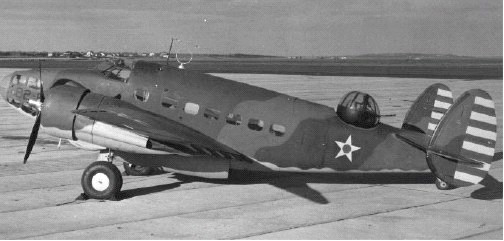 A Lockheed PBO-1 Hudson of patrol squadron VP-82 at Naval Air Station Argentia, Newfoundland (Canada), where 12 aircraft of VP-82 were based between January and May 1942.